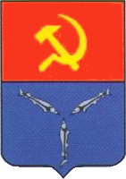 Soviet coat of arms of the town of Saratov